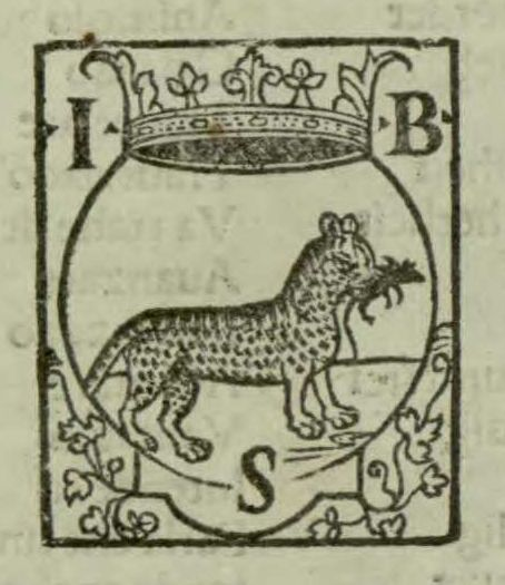 Sessa's typographical mark depicting a cat with the mouse in his mouth.